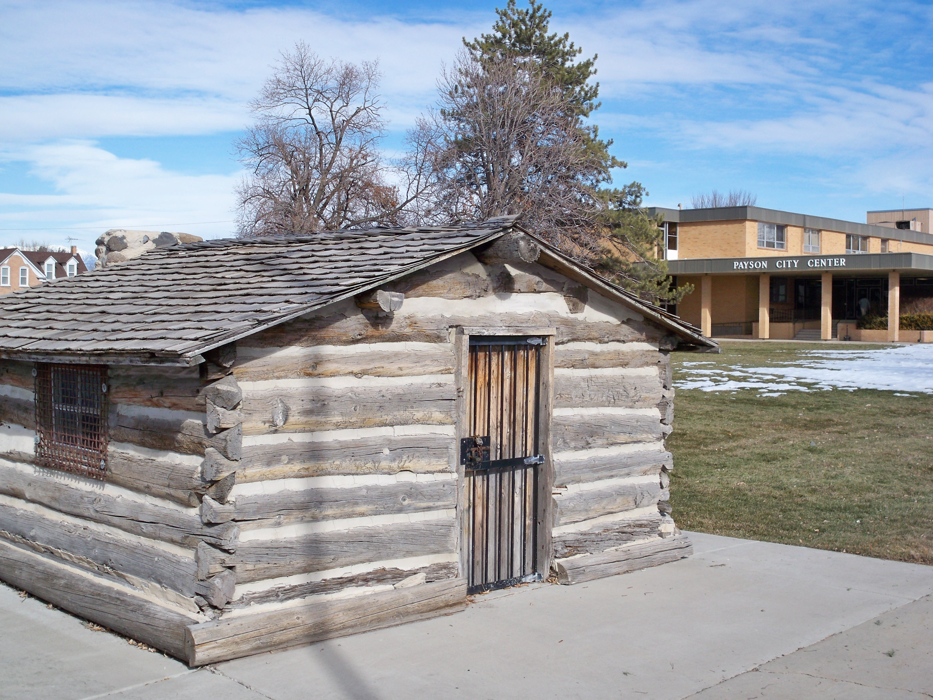 An antique cabin located on the Payson City Center grounds in Payson Utah